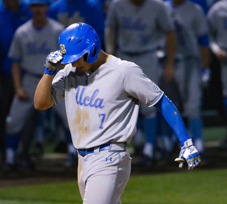 UCLA's dugout explodes in celebration as Michael Toglia touches home plate after tying the Michigan 3-3 with his solo home run in the eighth inning; UCLA defeats Michigan 5-4 in 12 innings, NCAA L.A. Super Regional game two, June 8, 2019